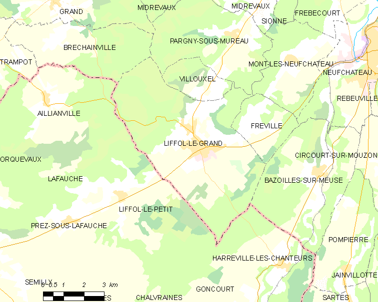 Map of French municipality Liffol-le-Grand